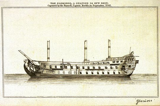 The Glorioso, A spanish 74 Gun Ship; Captured by the Russell, Captain Buckle, in October 1747